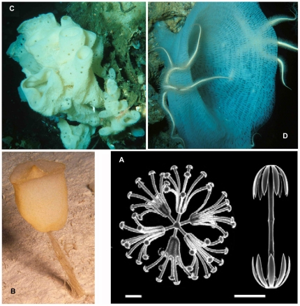 A. Scanning electron micrographs of microscleres (courtesy of H.M. Reiswig), left: a hexaster, the diagnostic spicule type of subclass Hexasterophora (scale bar = 10 µm), right: an amphidisc, the diagnostic spicule type of subclass Amphidiscophora (scale bar = 100 µm); B. Hyalonema sp., an amphidiscophoran (Amphidiscosida: Hyalonematidae), Bahamas; C. Atlantisella sp., a lyssacine hexasterophoran (Lyssacinosida: Euplectellidae), Galapagos Islands; D. Lefroyella decora, a dictyonal hexasterophoran (“Hexactinosida”: Sceptrulophora: Euretidae), Bahamas. B–D courtesy of Harbor Branch Oceanographic Institute (Ft. Pierce, Florida, U S A), images taken from manned submersible Johnson-Sea-Link II.